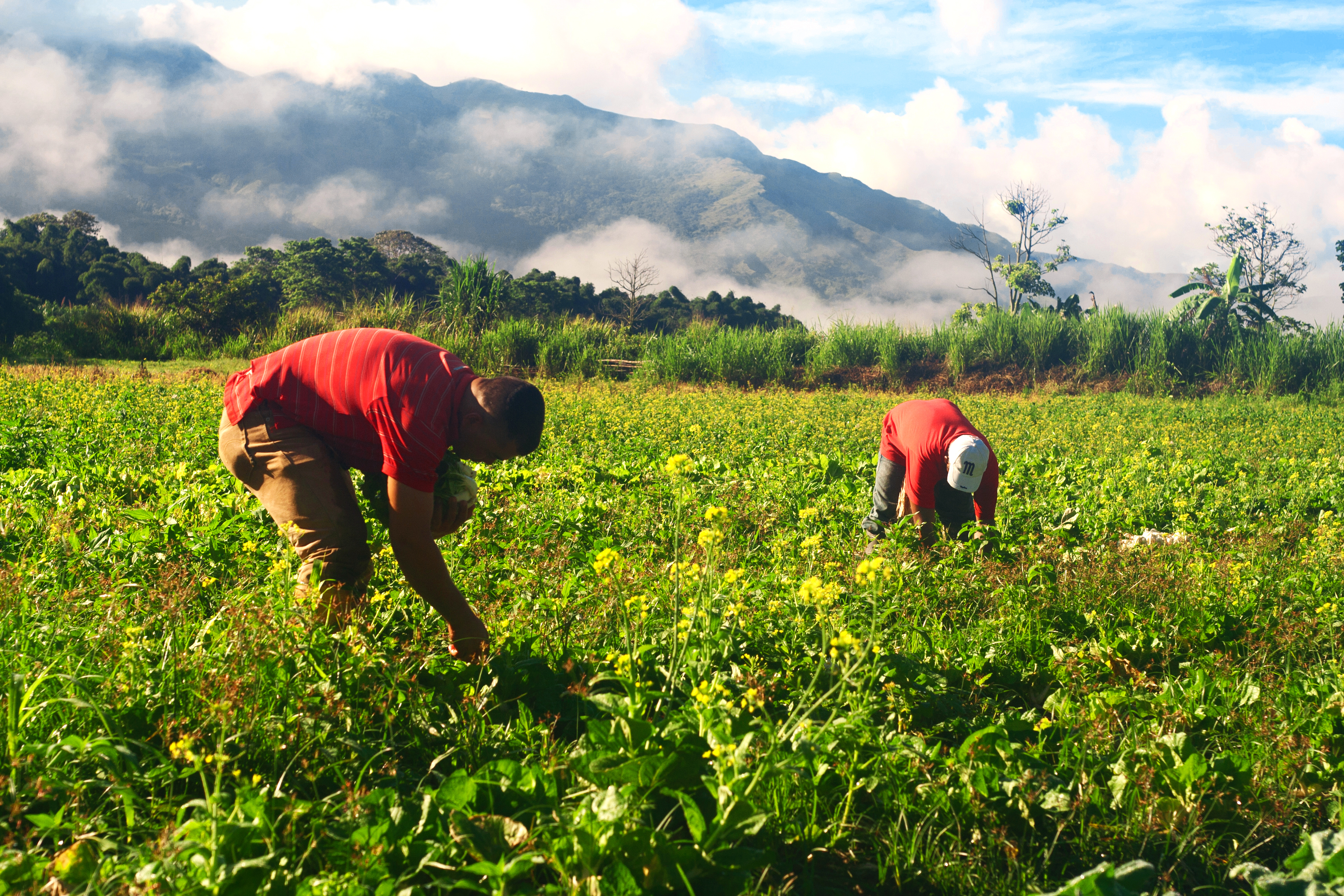 Two agriculturists collect vegetables from a harvest in the village of Chirgua, municipality Bejuma. The climatic conditions of the region guarantee high fertility on their land, allowing the successful planting and harvesting potatoes much as many other foods.